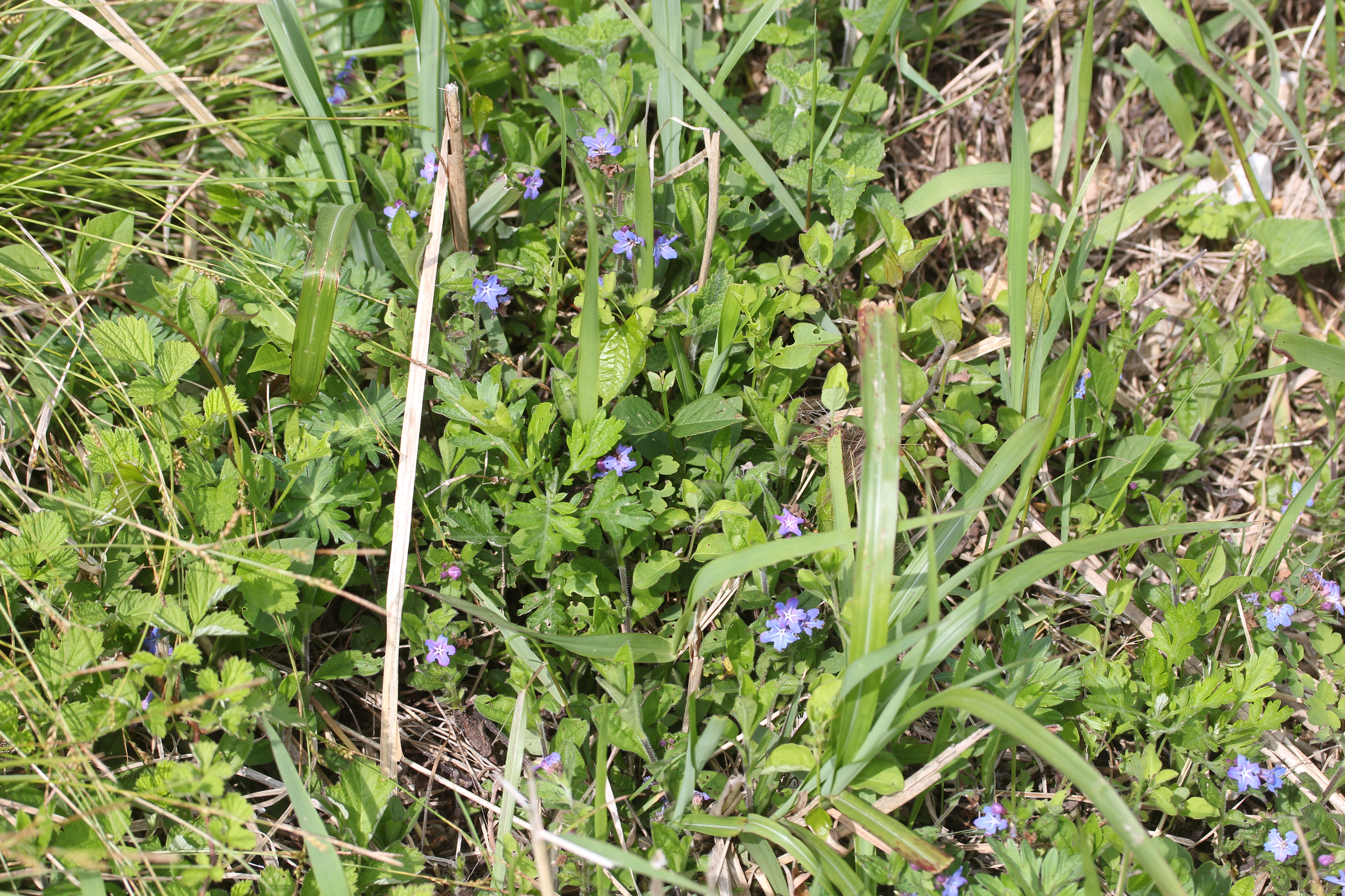 Lithospermum zollingeri in Mount Ibuki, Maibara, Shiga Prefecture, Japan.